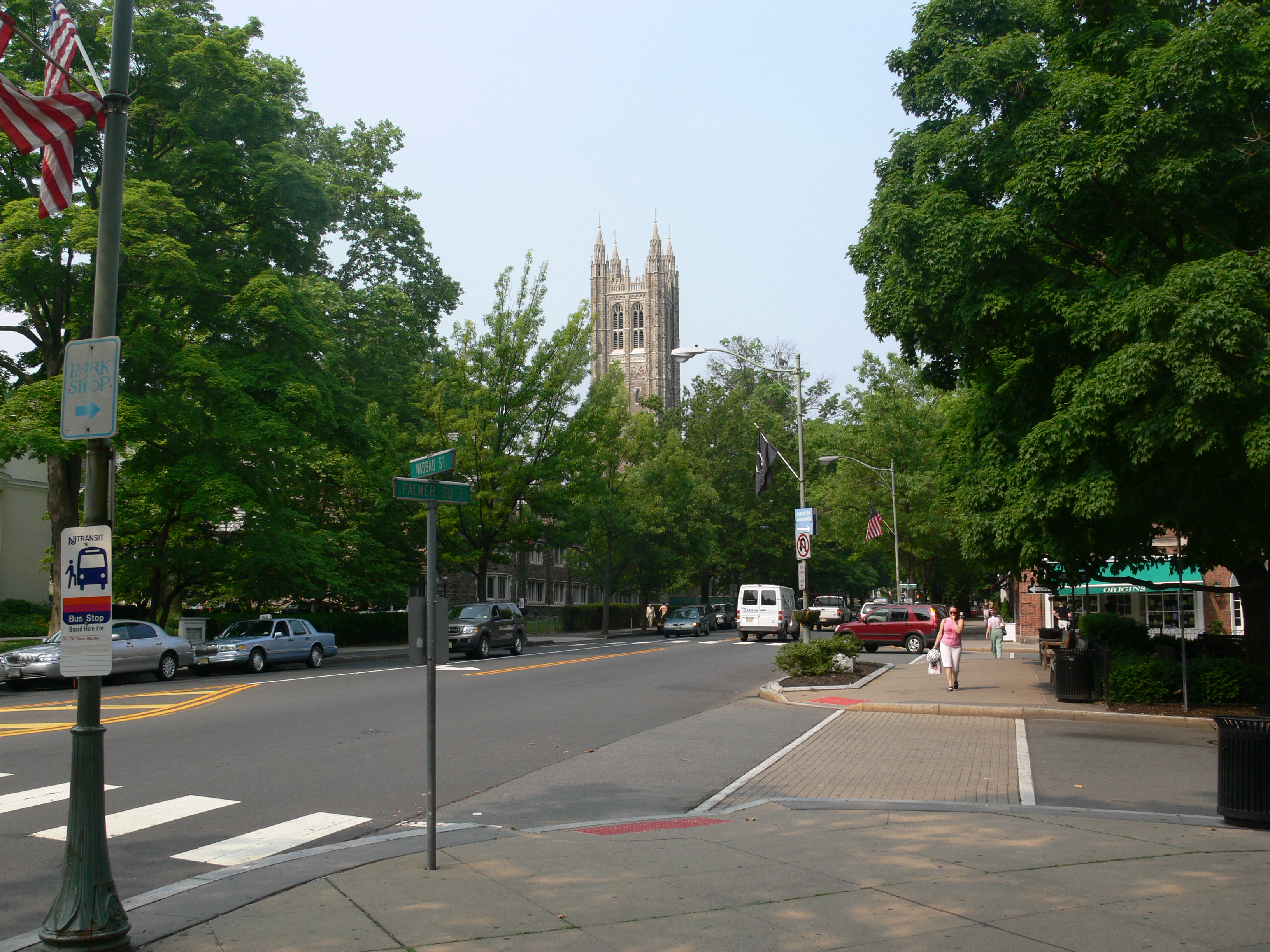 Holder Tower (tower of Holder Hall, Princeton University), seen from Nassau Street; Princeton, New Jersey